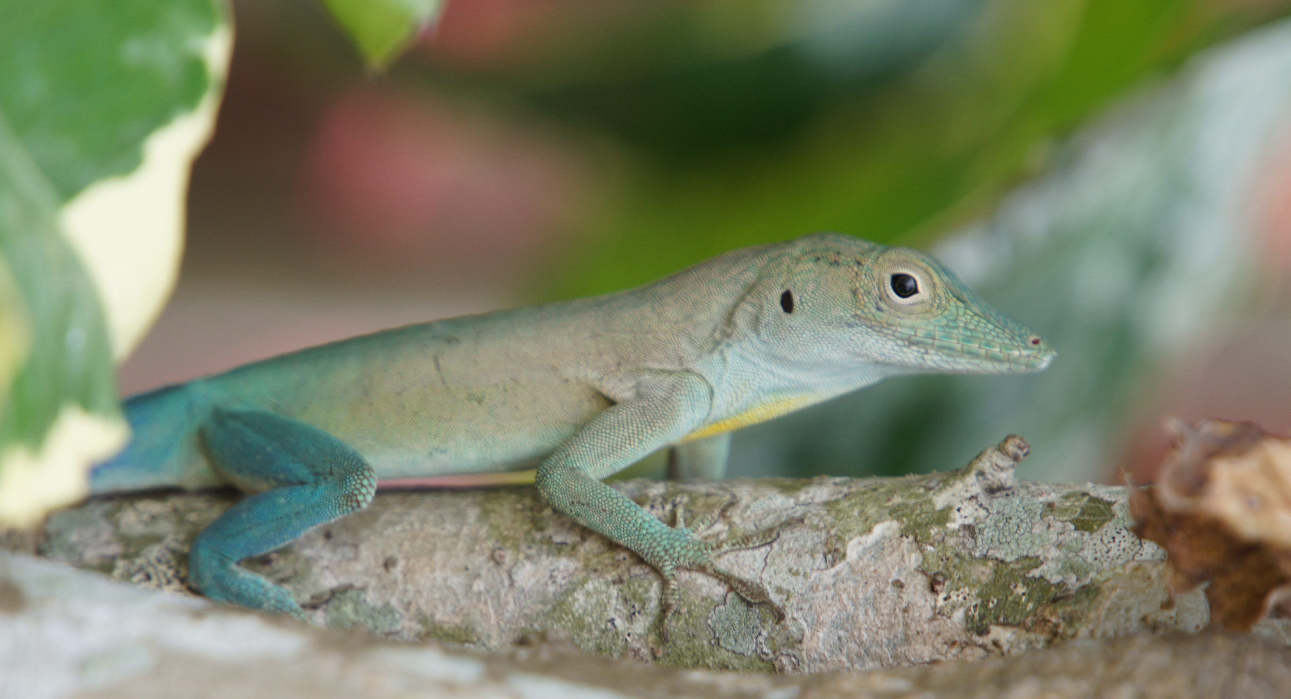 Graham's anole on tree in Bermuda.